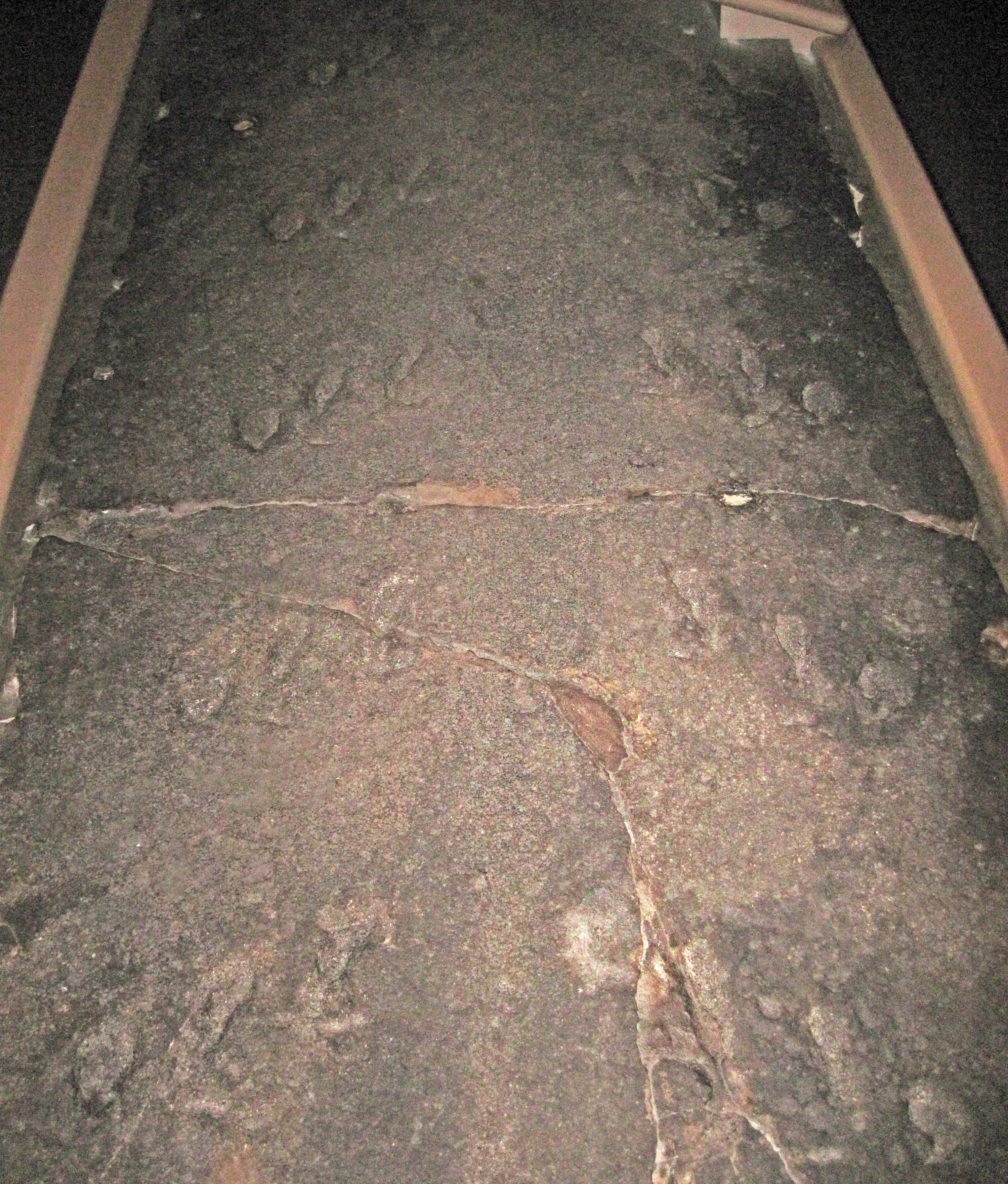 Palmichnium kosinskiorum Briggs & Rolfe, 1983 - sea scorpion tracks in sandstone from the Pennsylvanian of Pennsylvania, USA. (CM 34388, Carnegie Museum of Natural History, Pittsburgh, Pennsylvania, USA) The eurypterids, or sea scorpions, are an extinct group of chelicerate arthropods. They have an elongated, scorpion-like body that could reach enormous sizes (2.5 to 3 meters!), with a nonmineralizing exoskeleton composed of chitinous material. They are generally found in shallow to very shallow water marine and marginal marine facies. Seen here is the holotype of Palmichnium kosinskiorum, the largest eurypterid trackway known. From museum exhibit signage: A Giant Sea Scorpion Trackway from western Pennsylvania Palmichnium kosinskiorum CM 34388 (Holotype) Briggs & Rolfe, 1983 Eurypterids, also known as sea scorpions, were one of the fearsome swimming predators of the Paleozoic seas (545-250 million years ago). This fossil was discovered by a former museum employee, James Kosinksi in 1948 along the Clarion River, Elk County, Pennsylvania. In 1983, English paleontologists Derek E.G. Briggs and W.D. Ian Rolfe described and named this specimen Palmichnium kosinskiorum. This eurypterid trackway is the largest known in the world. The 350 million-year-old fossil impressions record the footprints of an animal estimated to be more than seven and a half feet long. The shallow groove in the center of the trackway was caused by the animal's dragging tail, a possible indication of its amphibious movement between water and land. Classification: Animalia, Arthropoda, Chelicerata, Merostomata, Xiphosura, Eurypterida, Eurypteridae Stratigraphy: Pottsville Group, Pennsylvanian Locality: outcrop along Spring Creek-Clarion River, Elk County, northwest-central Pennsylvania, USA See info. at: and